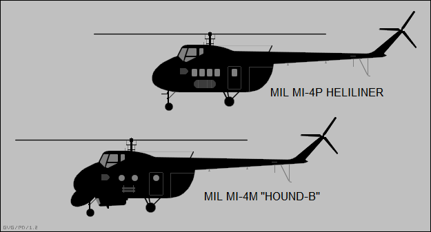 Side-view silhouettes of Mil Mi-4 variants